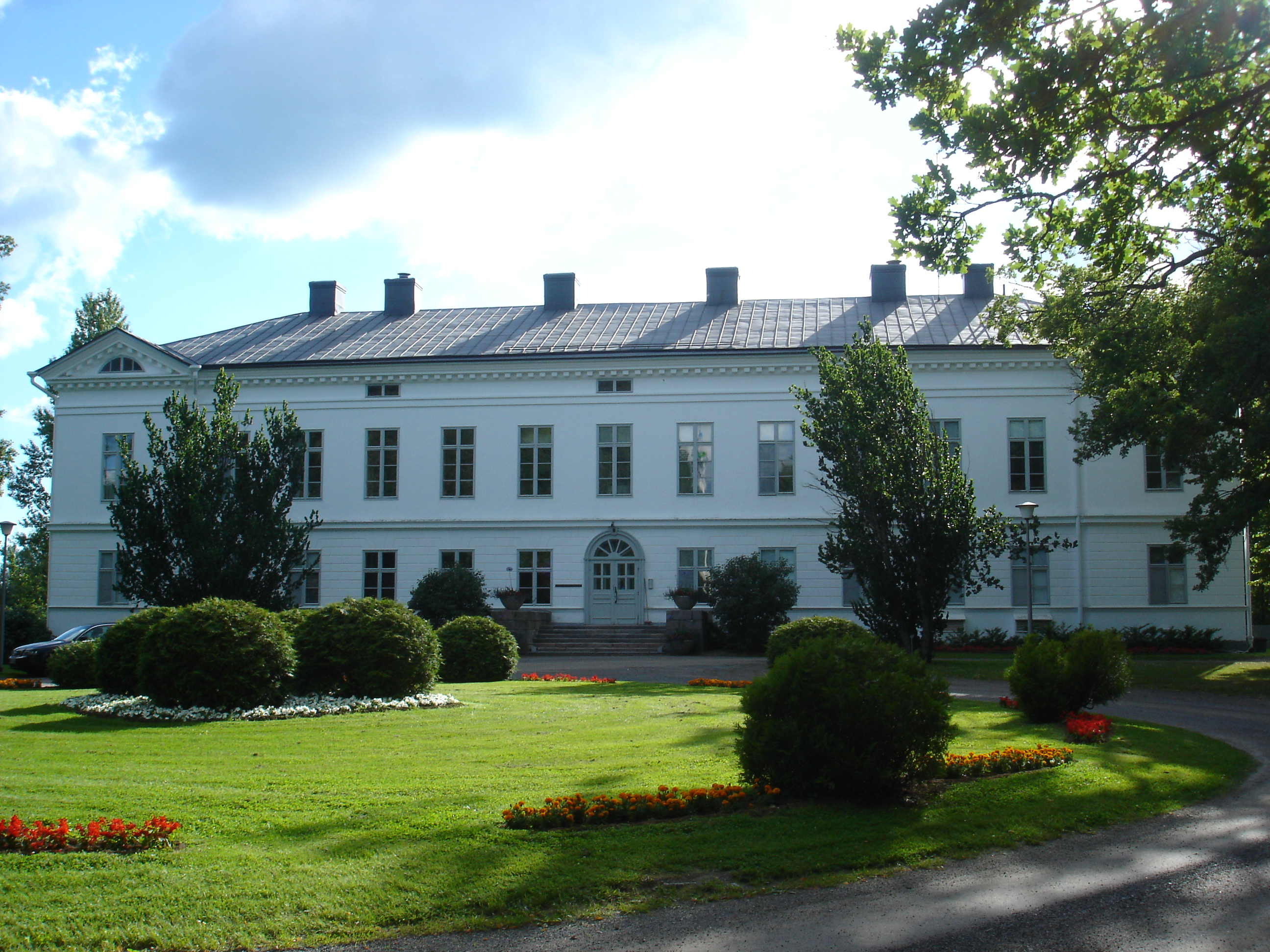 Jokioinen manor, main building